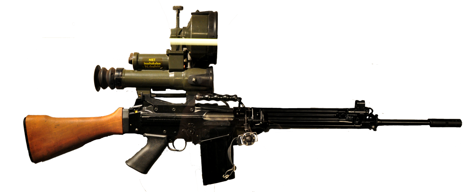 FN FAL with an infrared light and scope, exhibited at the Legermuseum in Delft